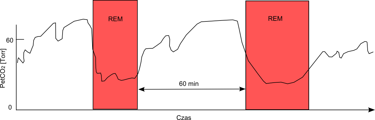 Sleep state-related ventilation in an 8-year-old boy suffering from congenital central hypoventilation syndrome (CCHS): Severe hypercapnia during deep NREM sleep, normocapnia during REM sleep. An increased FiO 2 kept the PO 2 at normal values. Based on:Thorsten Schäfer -Respiratory pathophysiology: sleep-related breathing disorders. GMS Curr Top Otorhinolaryngol Head Neck Surg 2006;5:Doc01[1]